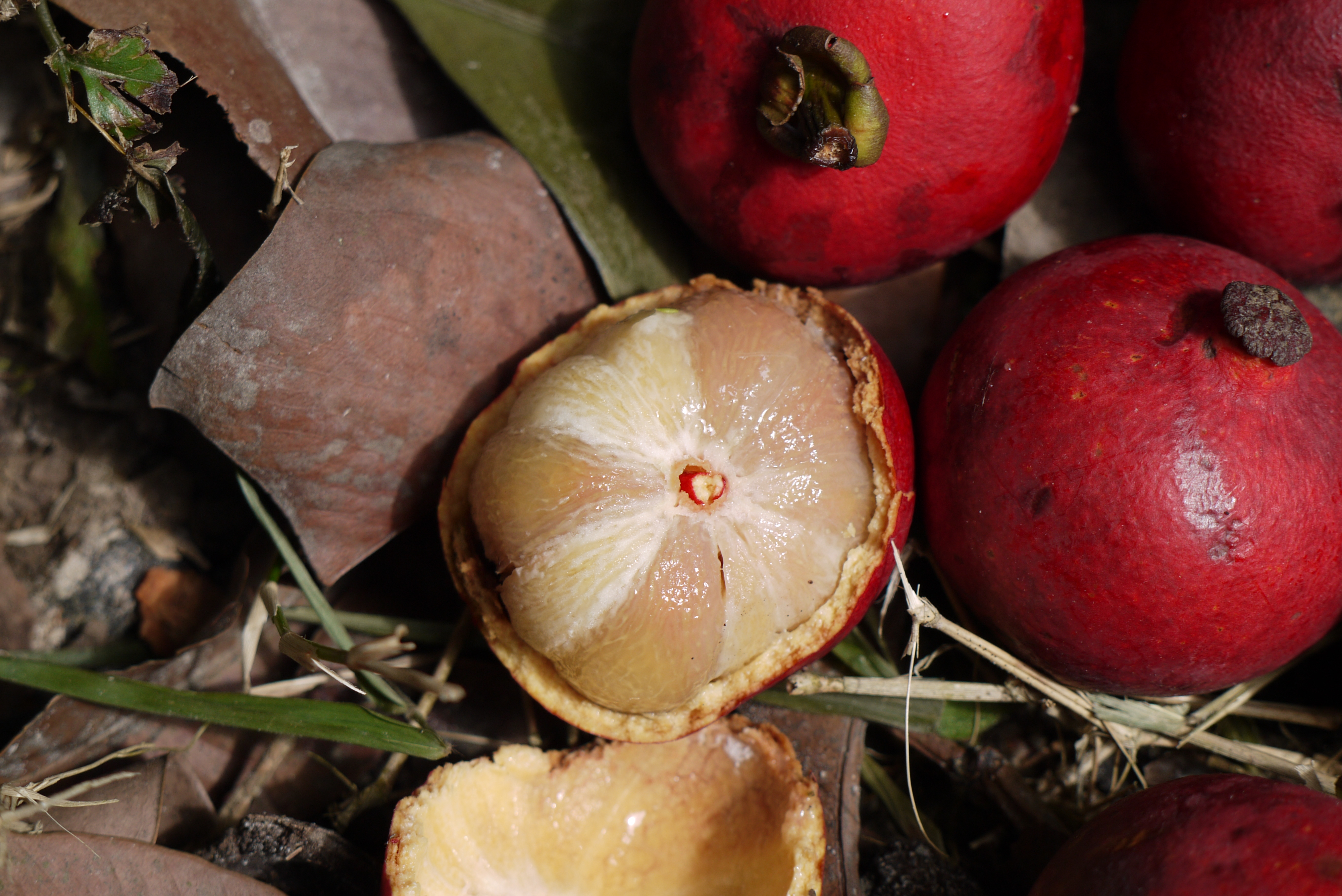 Native to Malaysia, known as "beruas" in Malay and common name - seashore mangosteen. The exocarp (peel) is in rose-red, which is different from the well-known purple mangosteen. The pulp is thin and sour. The fruit is with strong fragrance of mangosteen. Locality: MARDI native fruit field genebank.